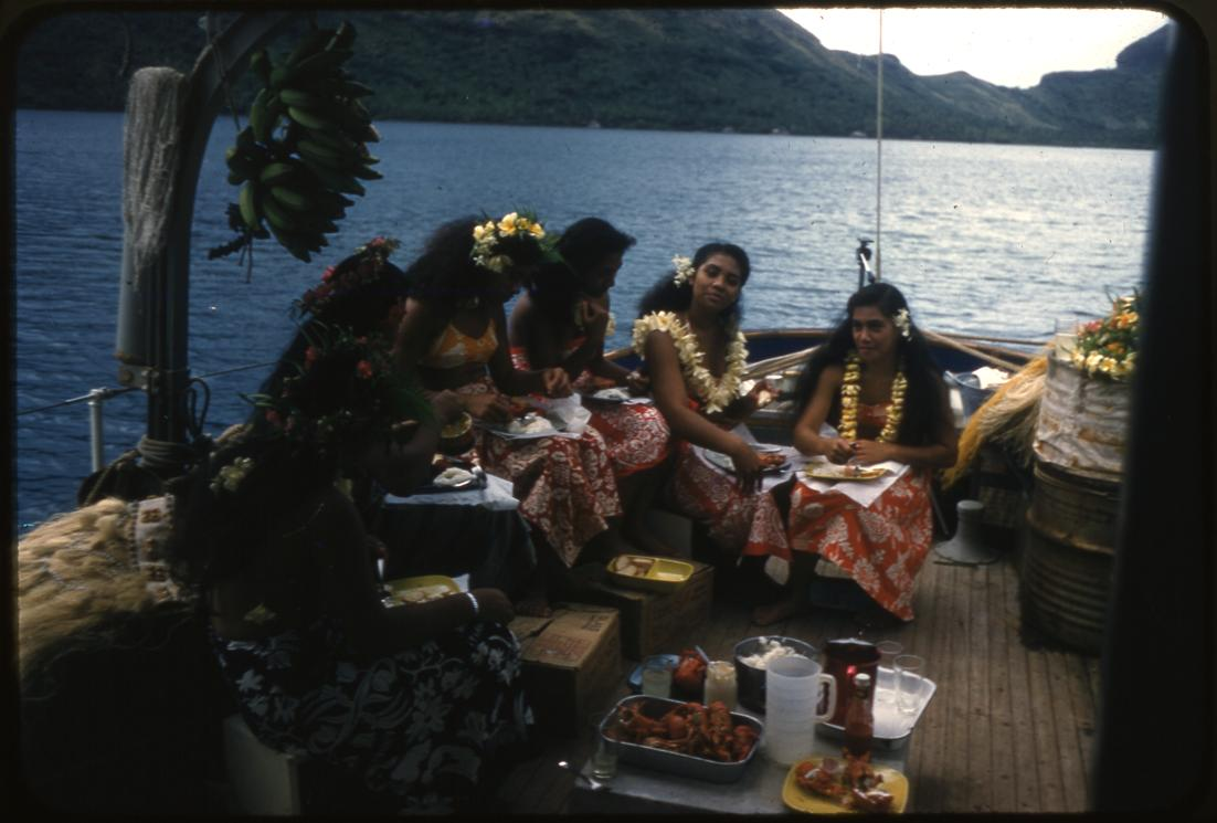 Local number: SIA2012-0656 Summary: SIA RU007231, Box 134, Folder "SI-Bredin Society Island Expedition, 1957". Waldo Schmitt collected invertebrate zoology specimens during the Smithsonian-Bredin Expedition, 1956. Repository: Smithsonian Institution Archives more collections from the Smithsonian Institution.